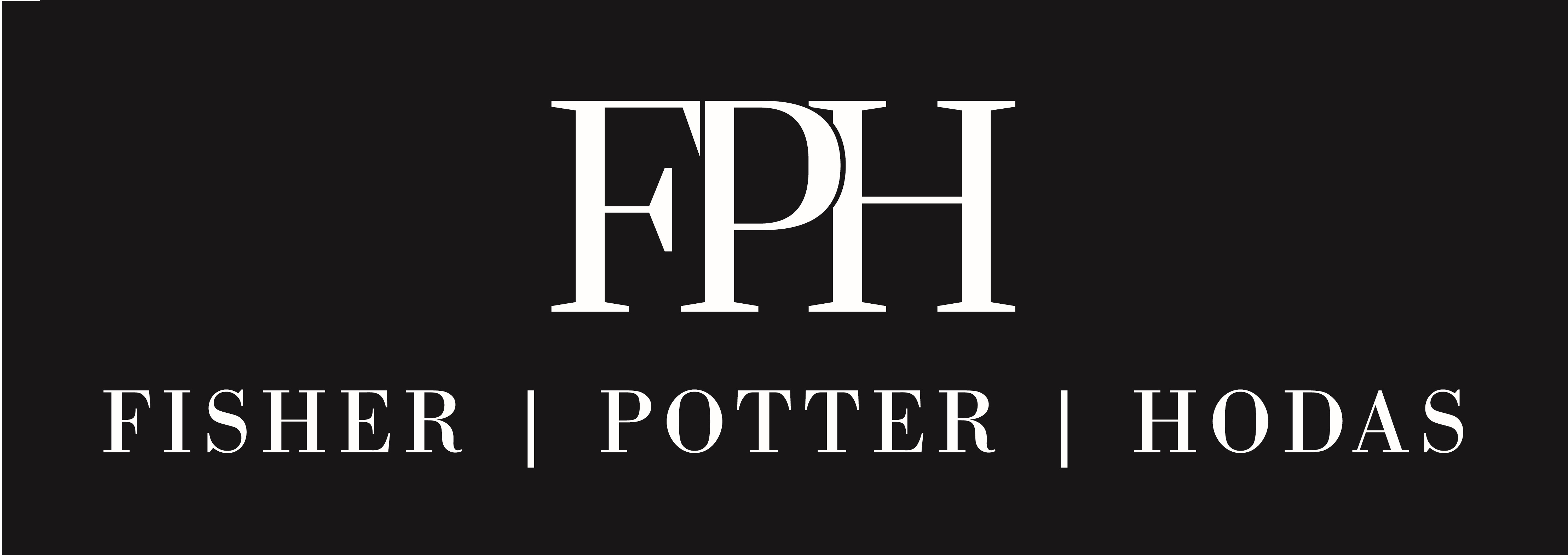 Fisher Potter Hodas handles complex divorce litigation for high-profile clients.